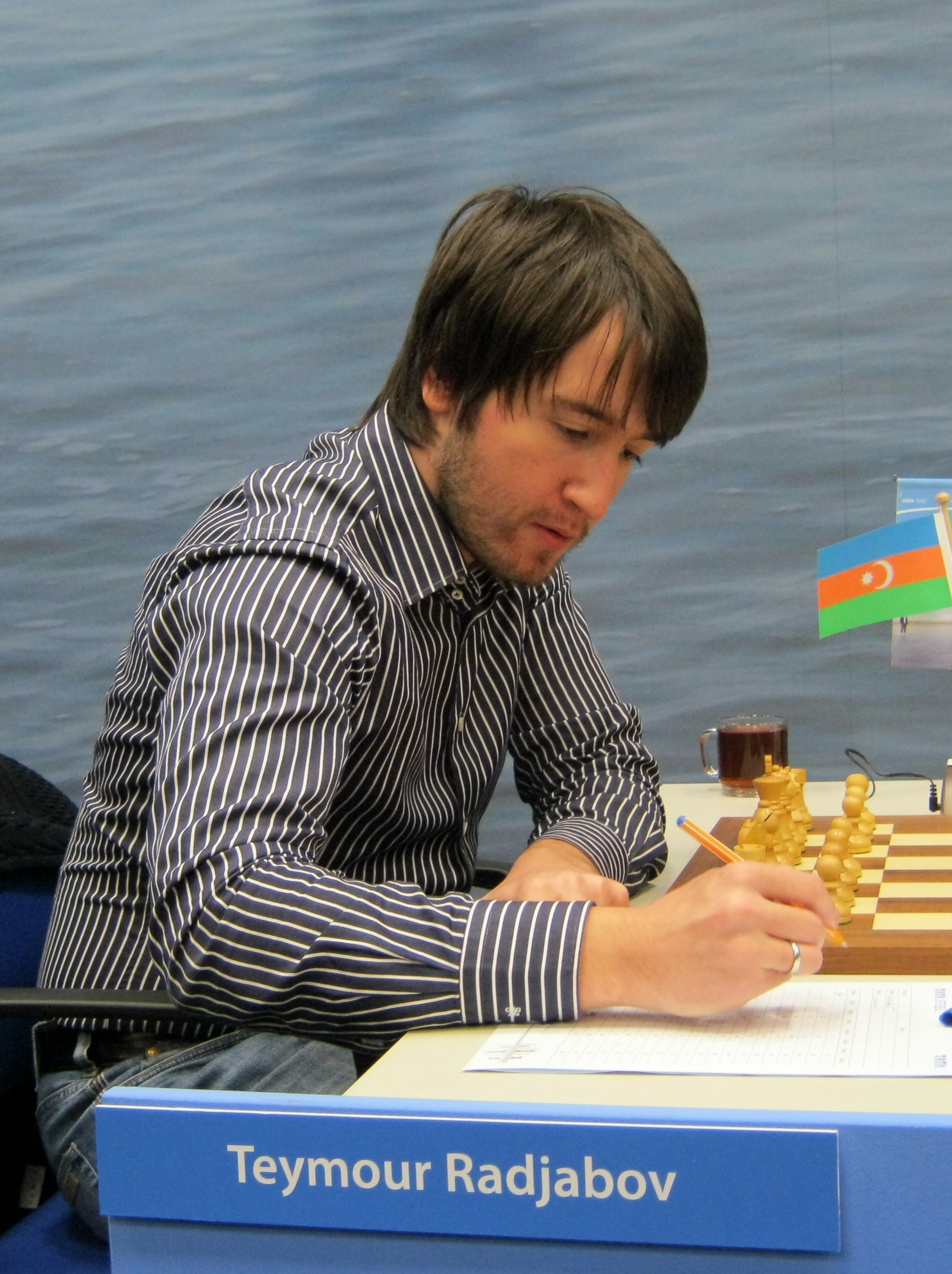 Teimour Radjabov, chess grandmaster from Azerbaijan